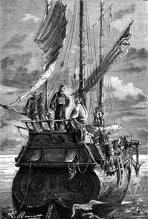 An illustration from Jules Verne's novel "Tribulations of a Chinaman in China" (1878) drawn by Léon Benett.